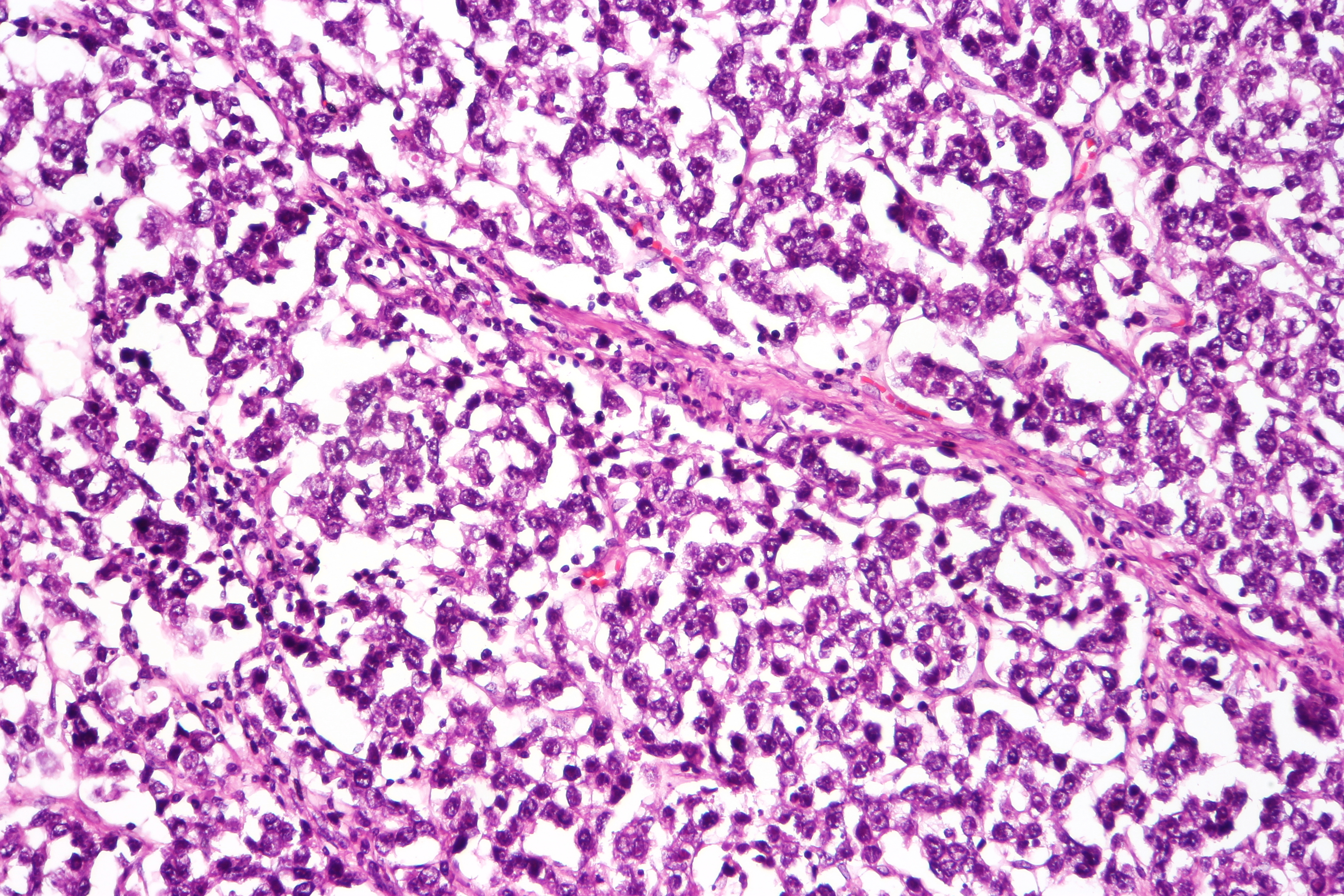 Dysgerminoma characterized by uniform cells resembling primordial germ cells separated by fibrous septa with lymphocytes. H&E Stain.